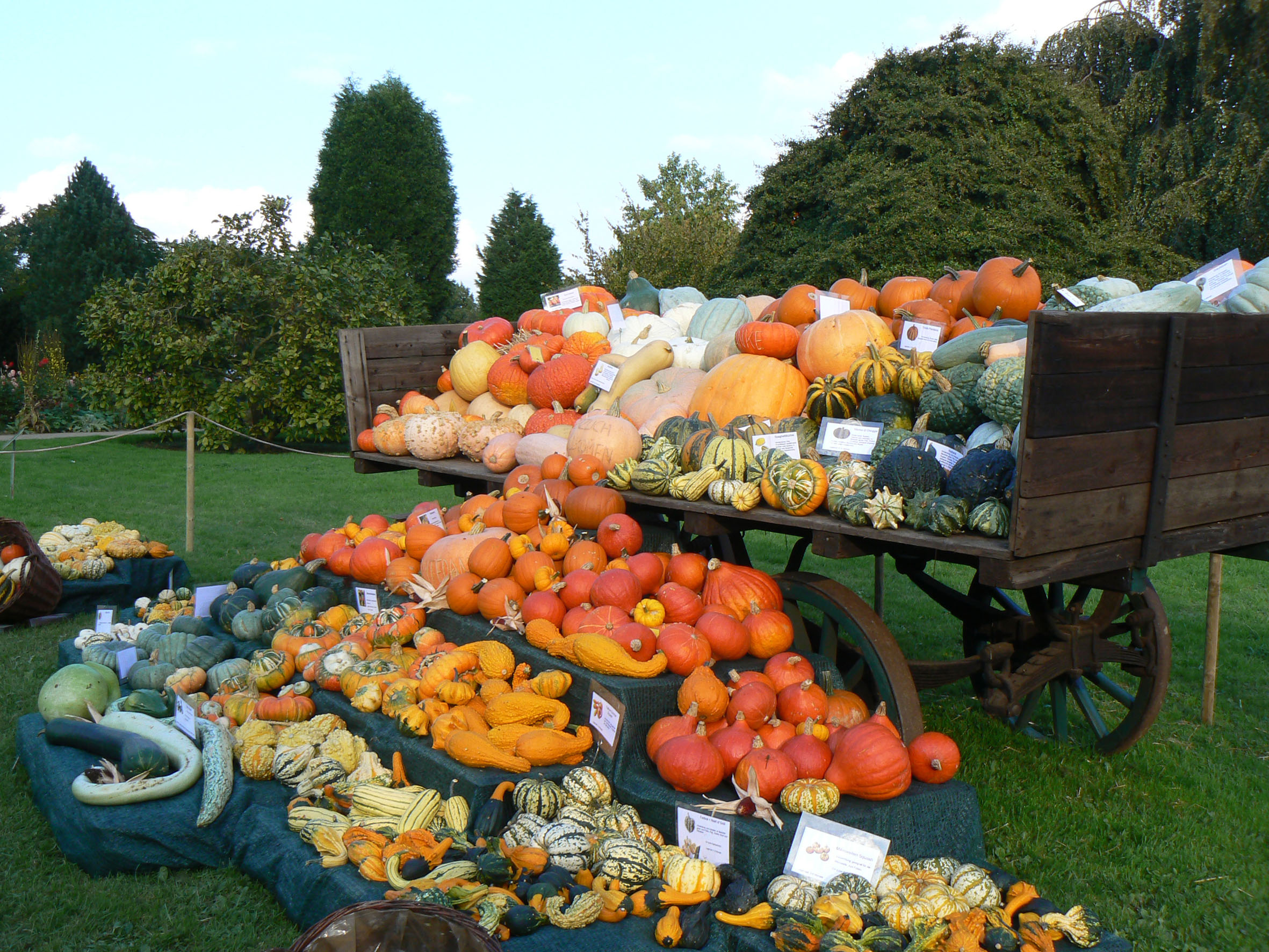 Exhibition of diverse pumpkin species in the Arboretum Ellerhoop, Schleswig-Holstein, Germany